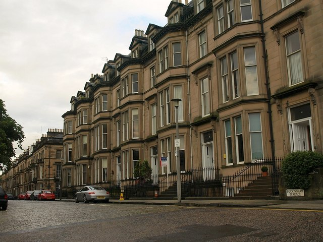 35-40 Buckingham Terrace, Edinburgh From John Gifford, Colin McWilliam, David Walker: Edinburgh (Buildings of Scotland) Penguin, rev 1991: "Buckingham Terrace was begun in 1860 ... the site of nos 35-40 to the west of Belgrave Terrace, originally designed by Chesser ..." {who built the rest of the terrace further east} "... was taken by the builder James Steel whose architect Alexander W. Macnaughtan departed from the agreed scheme. Steel was threatened with proceedings through the Lord Advocate, and nos 41-44 were never built; their place was taken by the Bristo Baptist Church {just behind the camera}. The executed houses are of greyer stone than the rest, without Chesser's trick of balancing the elevations. Full-height bays, and pedimented dormers exploiting the attic space." The terrace overlooks trees alongside the A90.